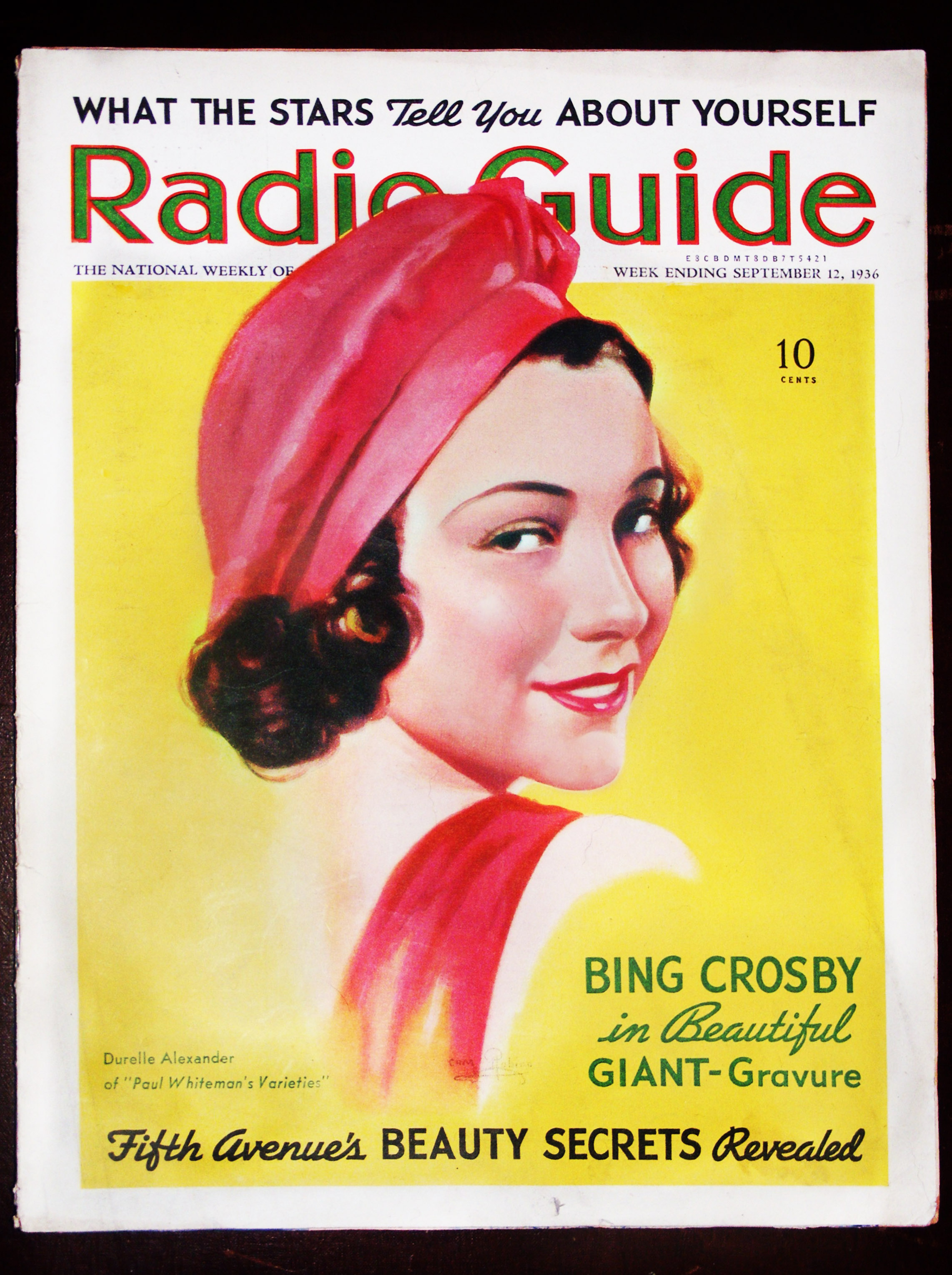 Durelle Alexander on the cover of Radio Guide, 1936